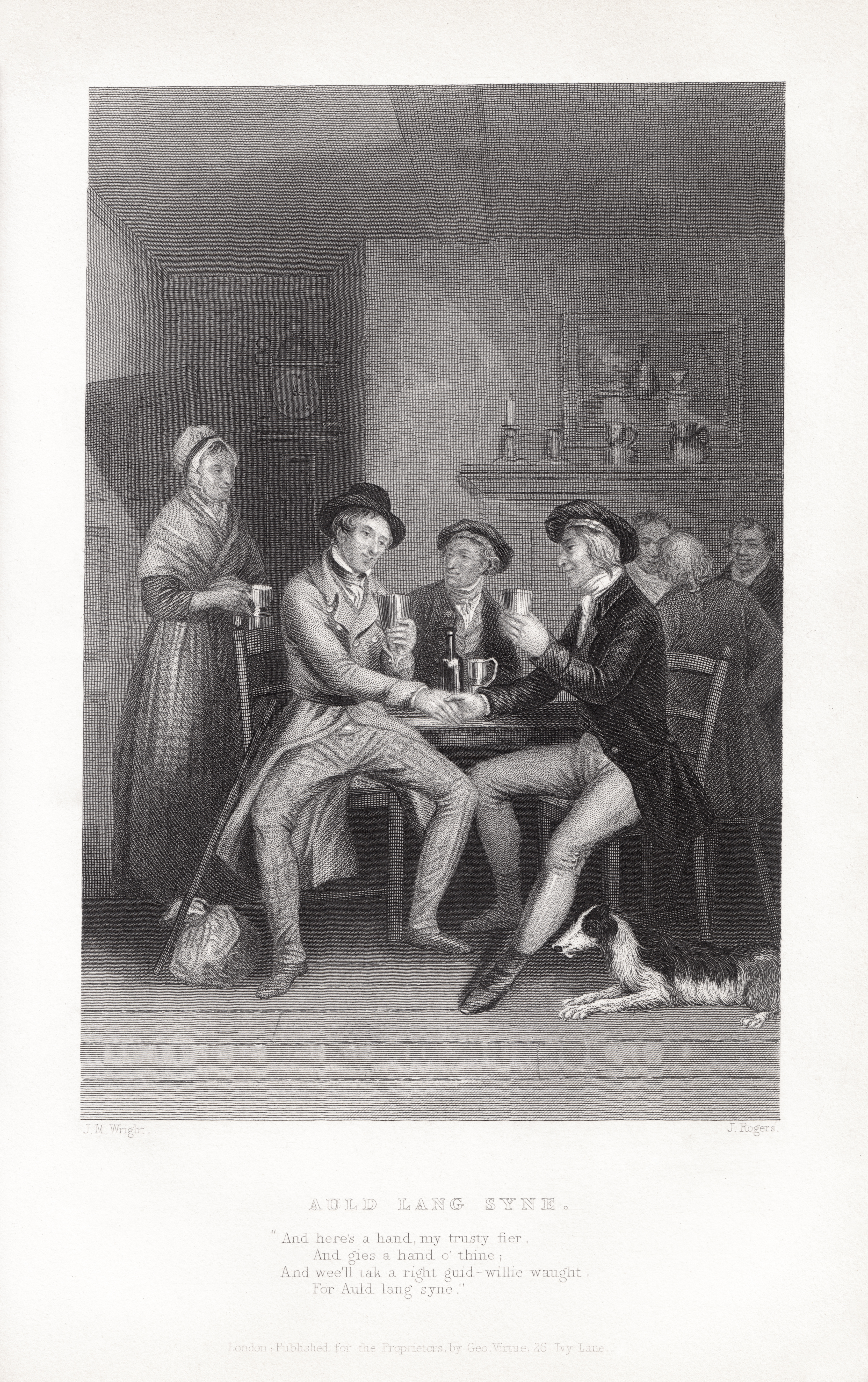 Illustration to Robert Burns' poem Auld Lang Syne by J.M. Wright and Edward Scriven. The Complete Works of Robert Burns: Containing the Poems, Songs, and Correspondence. Illustrated By W.H. Bartlett, T. Allom, and Other Artists. With a New Life of the Poet, and Notices, Critical and Biographical[1] by Allan Cunningham. Published in London by George Virtue. No year is given explicitly, but "James Gibson 1856" has been handwritten inside the front cover, it's dedicated to a MP, Archibald Hastie of Paisley, who was no longer a MP by 1857, and some of the artists and engravers were dead before 1842. As such, I'm going with c. 1841 as the year, though it could be as late as 1856, when James Gibson evidently acquired it. Scanned at 600dpi.